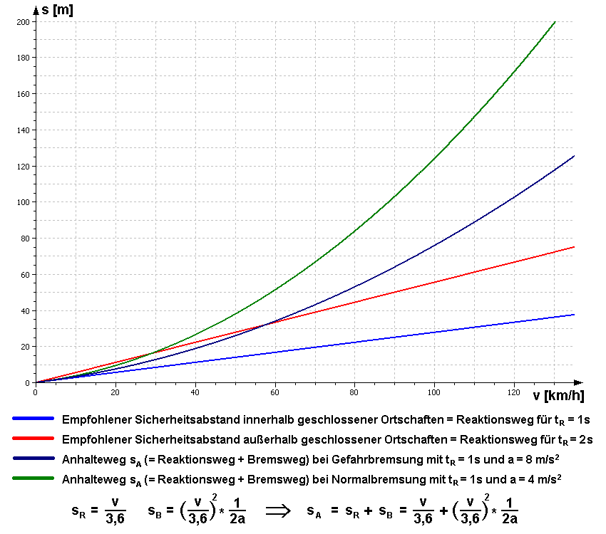 Safety and total stopping distances as depending on vehicle's speed